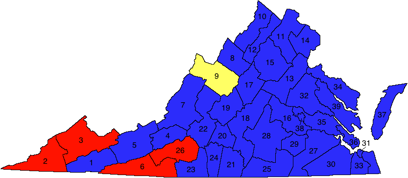 District boundaries of the Virginia Senate in 1916